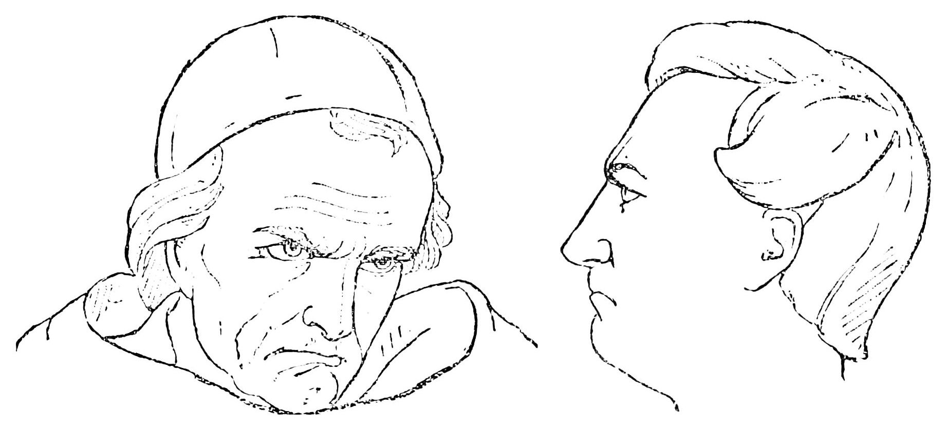 Various pinched facial expressions